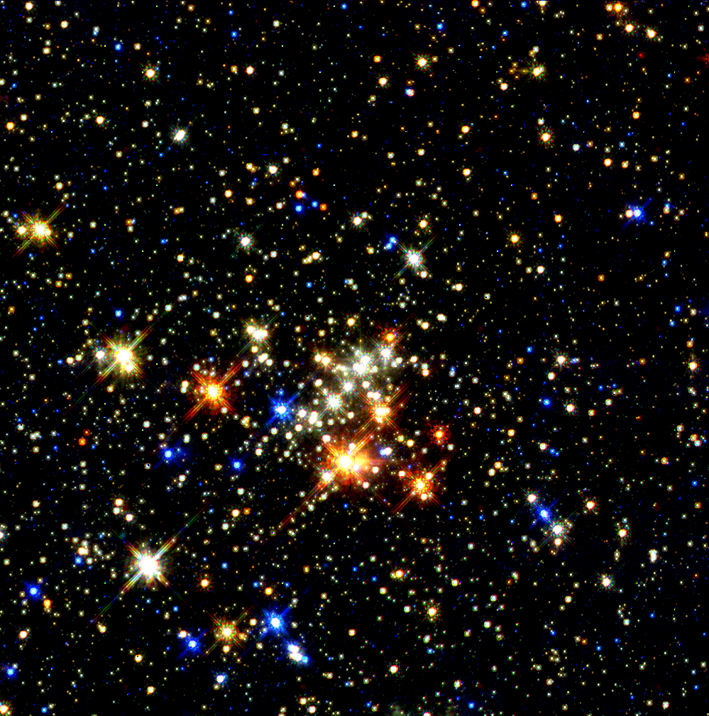 Penetrating 25,000 light-years of obscuring dust and myriad stars, NASA's Hubble Space Telescope has provided the clearest view yet of one of the largest young clusters of stars inside our Milky Way galaxy, located less than 100 light-years from the very center of the Galaxy. Having the equivalent mass greater than 10,000 stars like our sun, the monster cluster is ten times larger than typical young star clusters scattered throughout our Milky Way. It is destined to be ripped apart in just a few million years by gravitational tidal forces in the galaxy's core. But in its brief lifetime it shines more brightly than any other star cluster in the Galaxy. Quintuplet Cluster is 4 million years old. It has stars on the verge of blowing up as supernovae. It is the home of the brightest star seen in the galaxy, called the Pistol star. This image was taken in infrared light by Hubble's NICMOS camera in September 1997. The false colors correspond to infrared wavelengths. The galactic center stars are white, the red stars are enshrouded in dust or behind dust, and the blue stars are foreground stars between us and the Milky Way's center. The cluster is hidden from direct view behind black dust clouds in the constellation Sagittarius. If the cluster could be seen from earth it would appear to the naked eye as a 3rd magnitude star, 1/6th of a full moon's diameter apart.